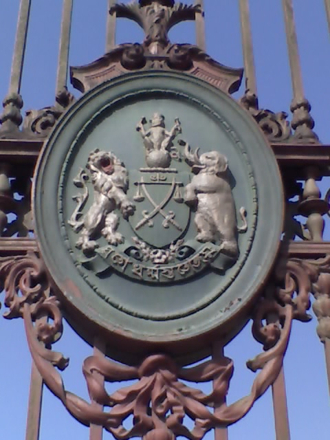 The royal seal of the Cooch Behar Kingdom